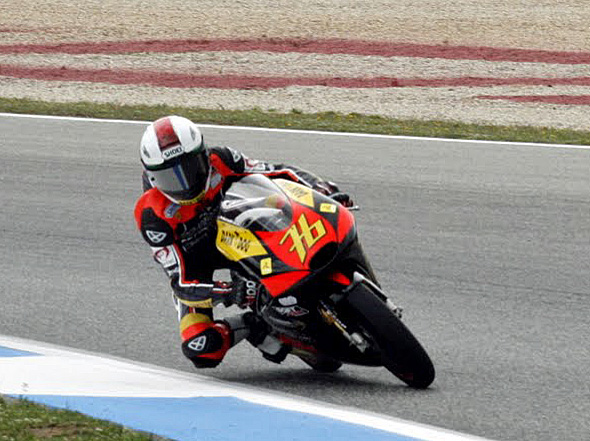 Hiroki Ono 2011 Estoril